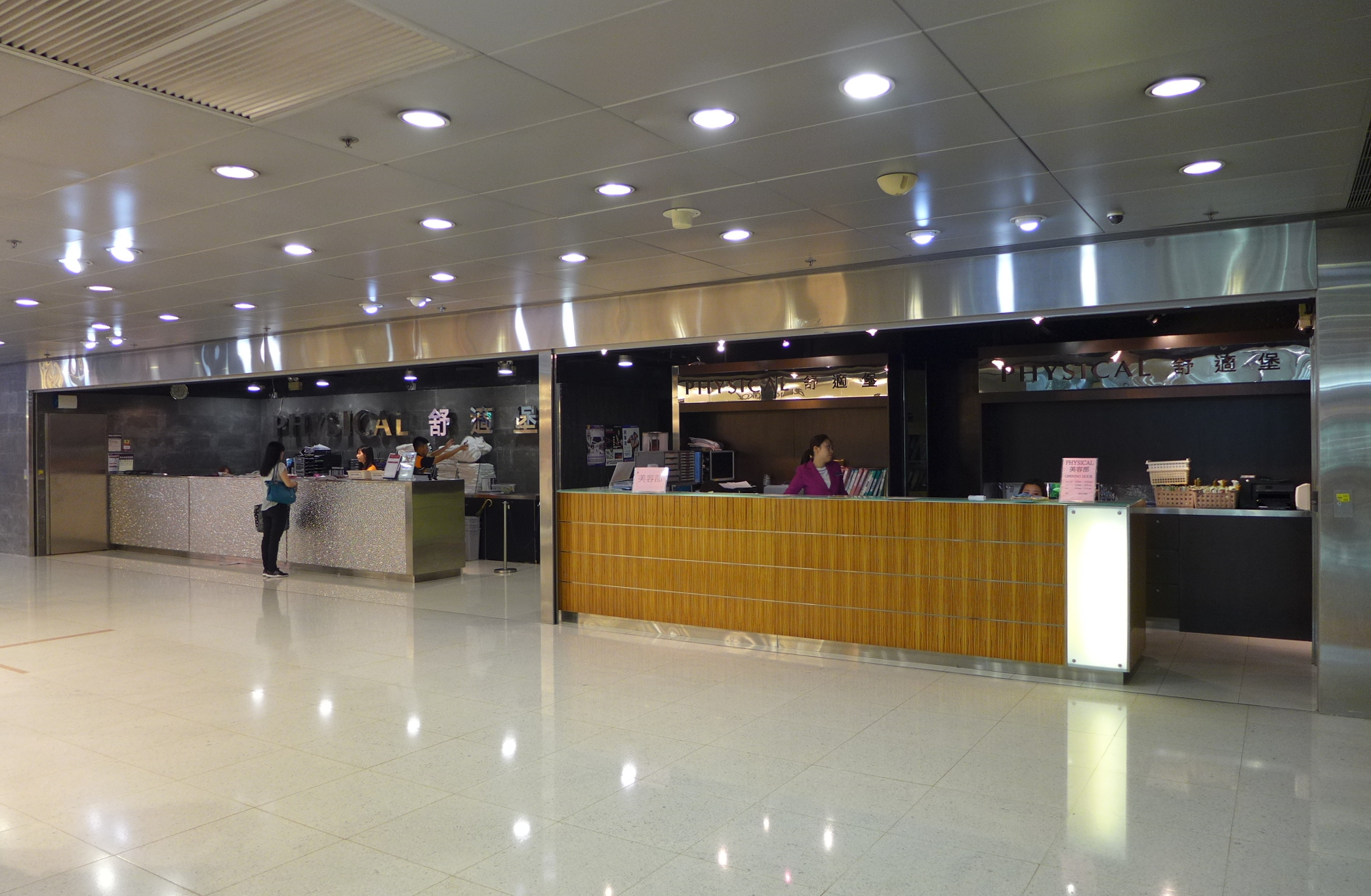 Physical in Kornhill Plaz